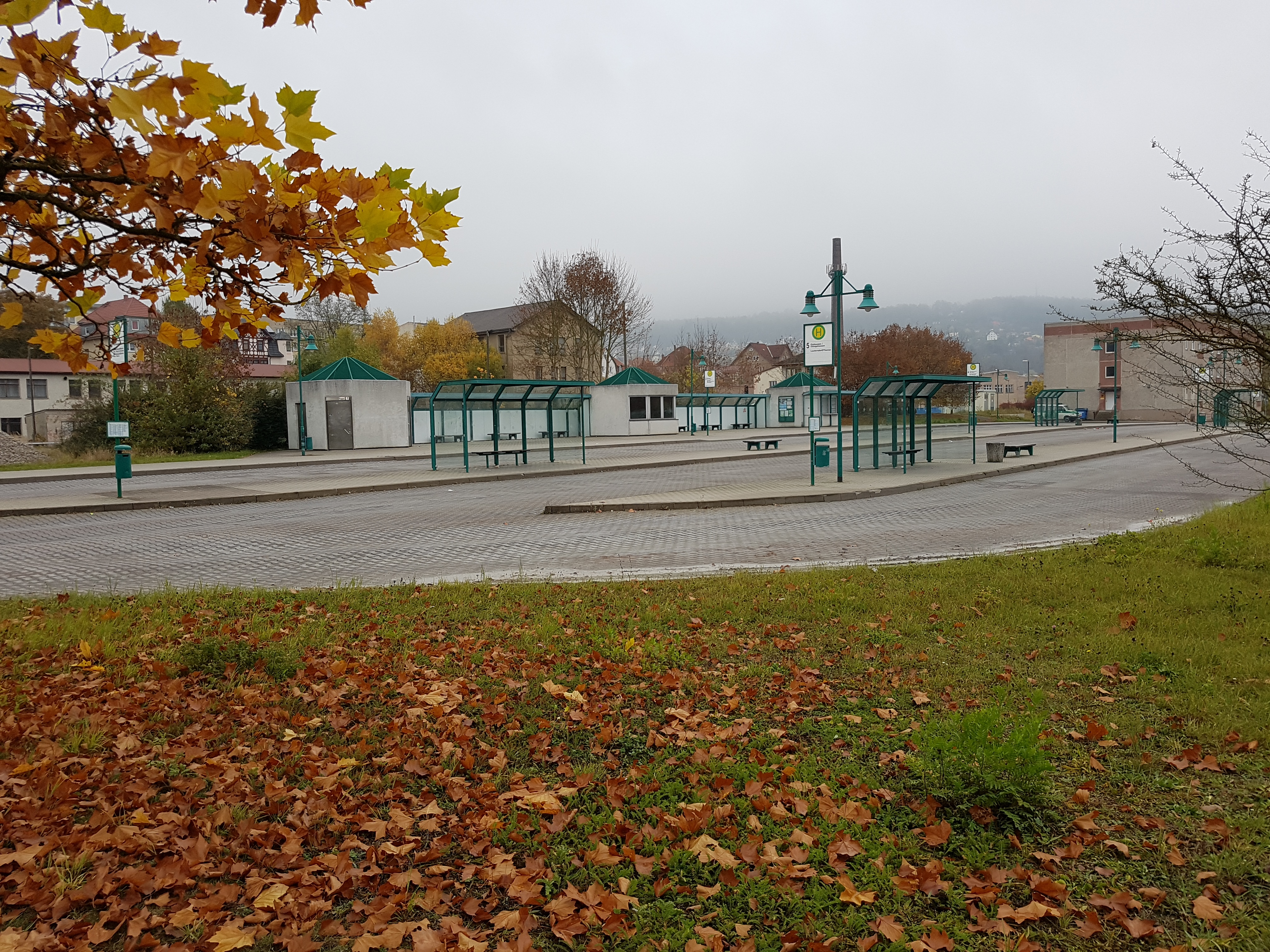 Bus station in Meiningen